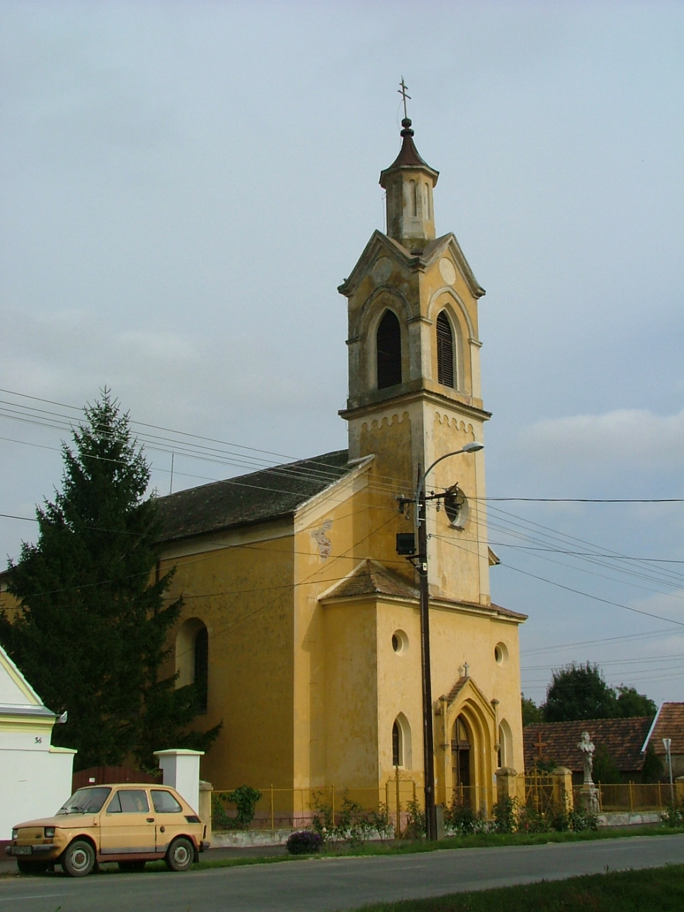 Szakony, catholic church